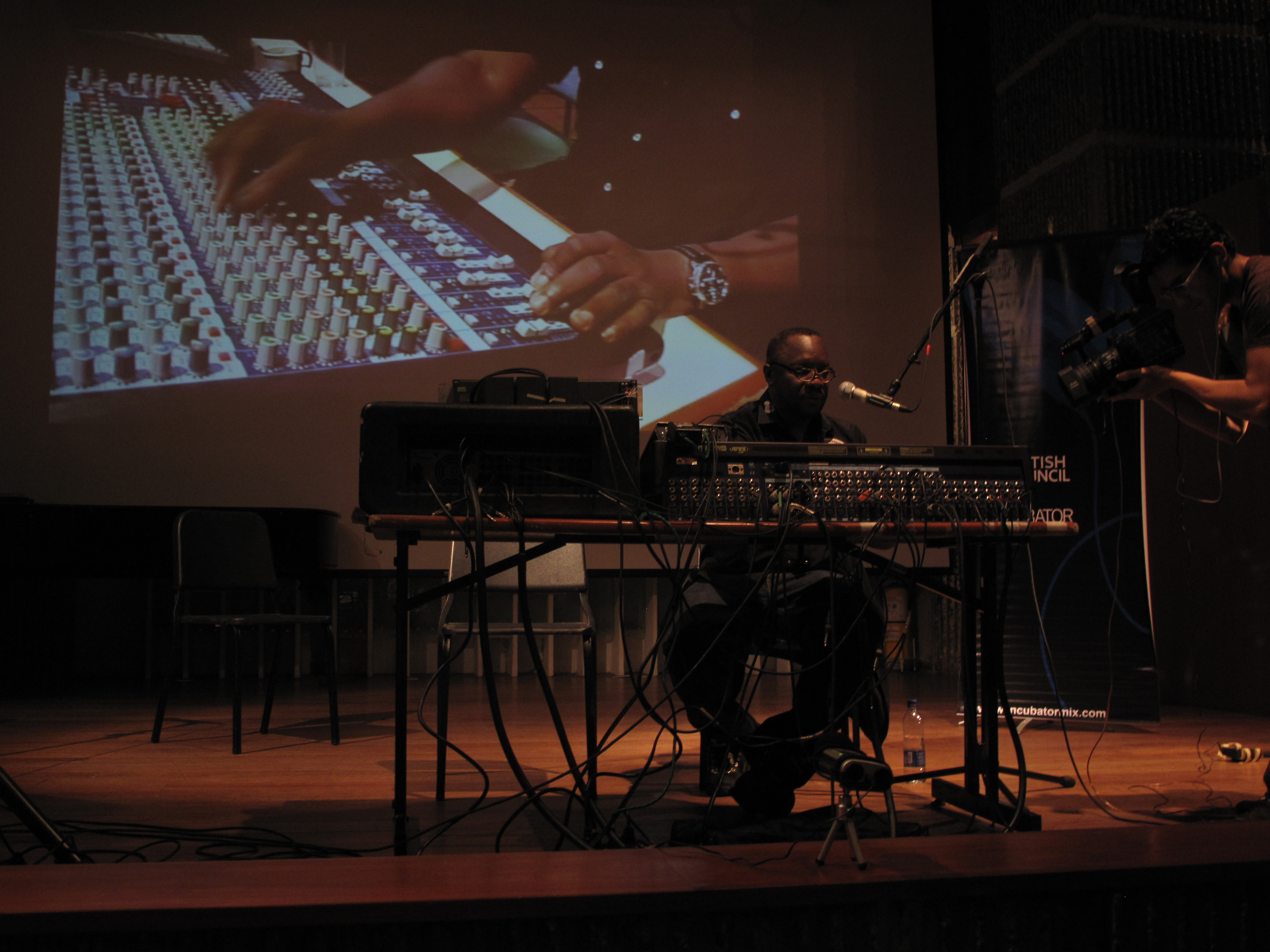 Mad Professor during a workshop at Bogota, Colombia.